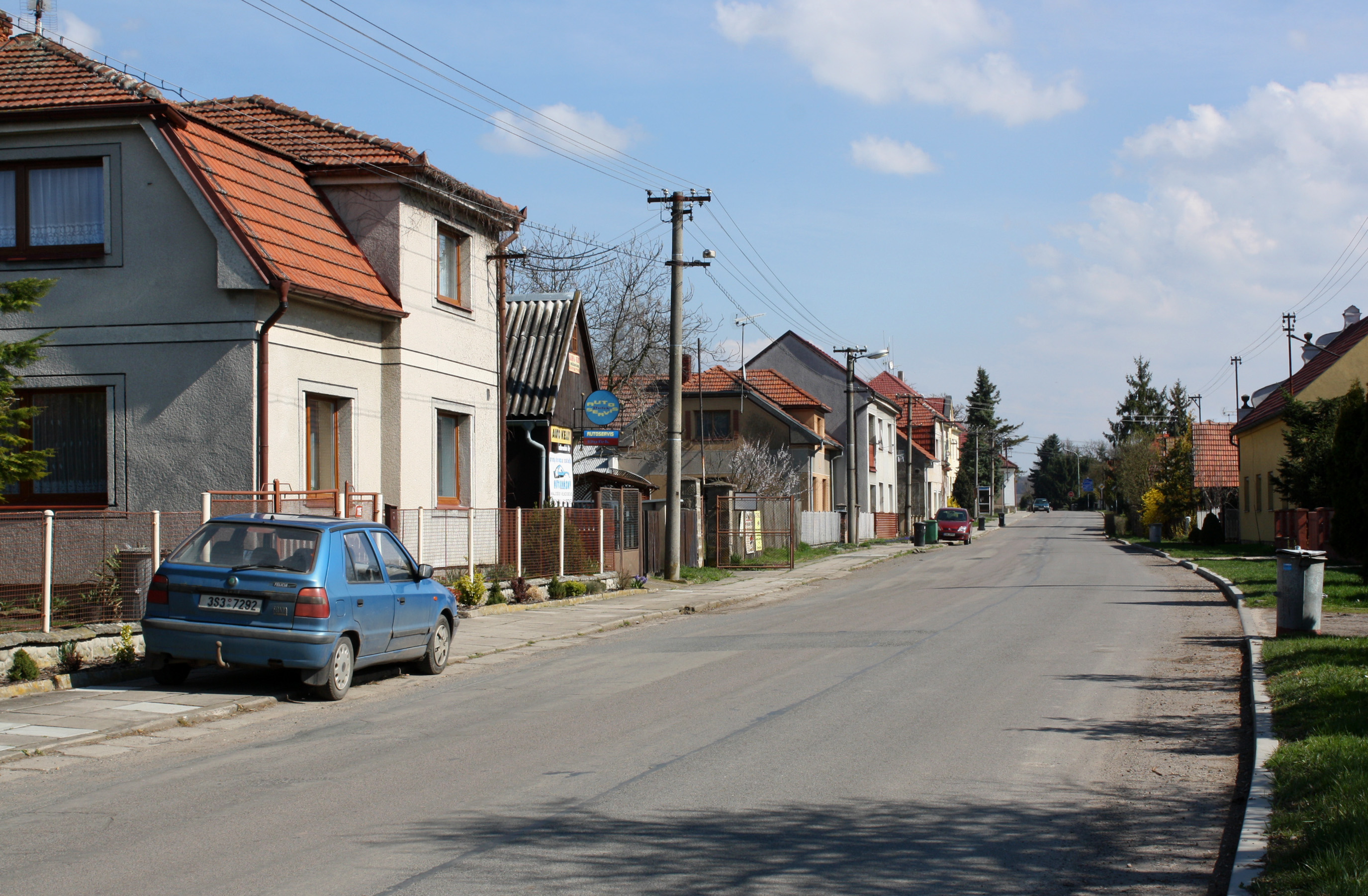 West part of Kněžice, Czech Republic